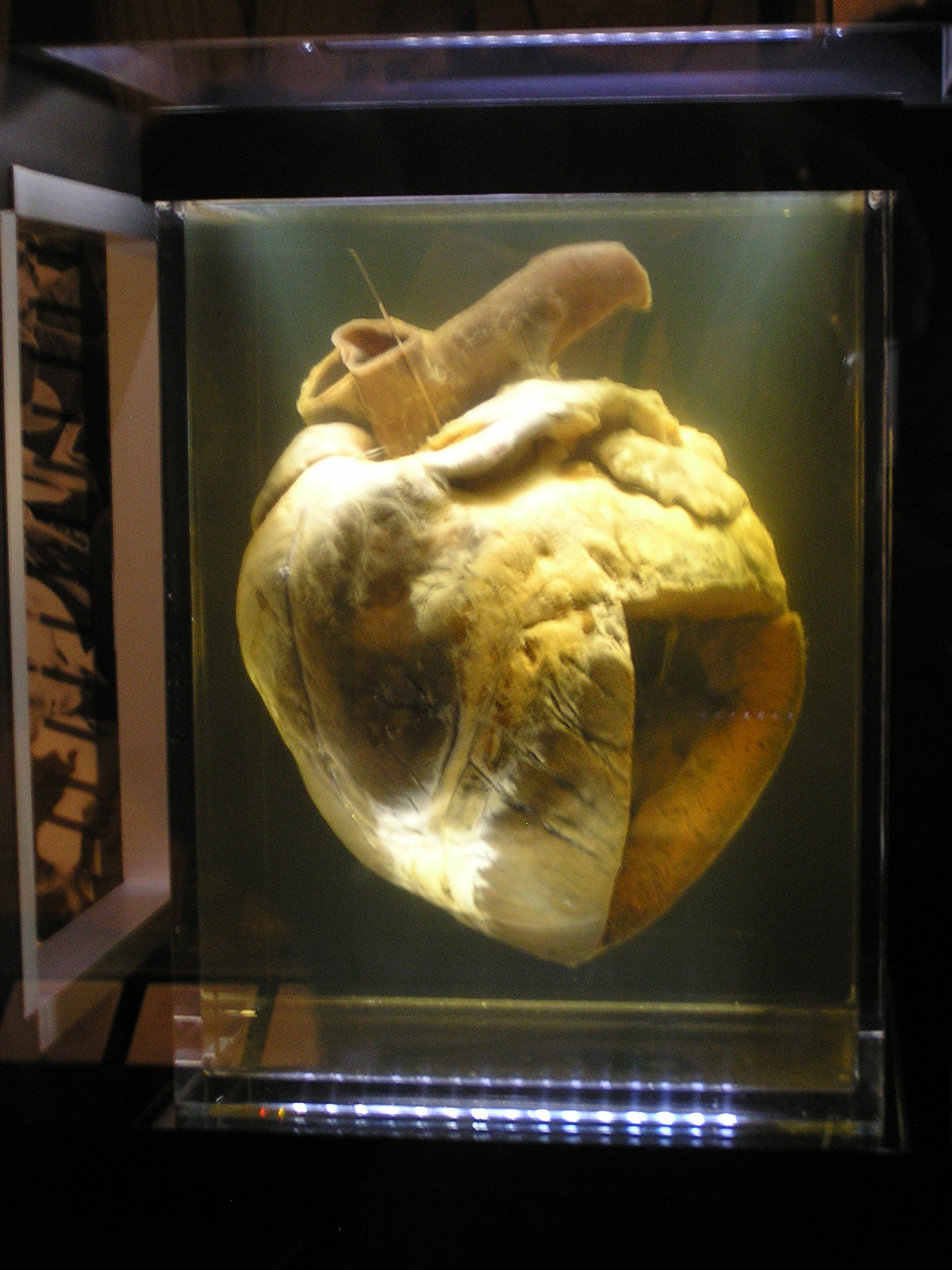 Phar Lap's heart at the National Museum of Australia